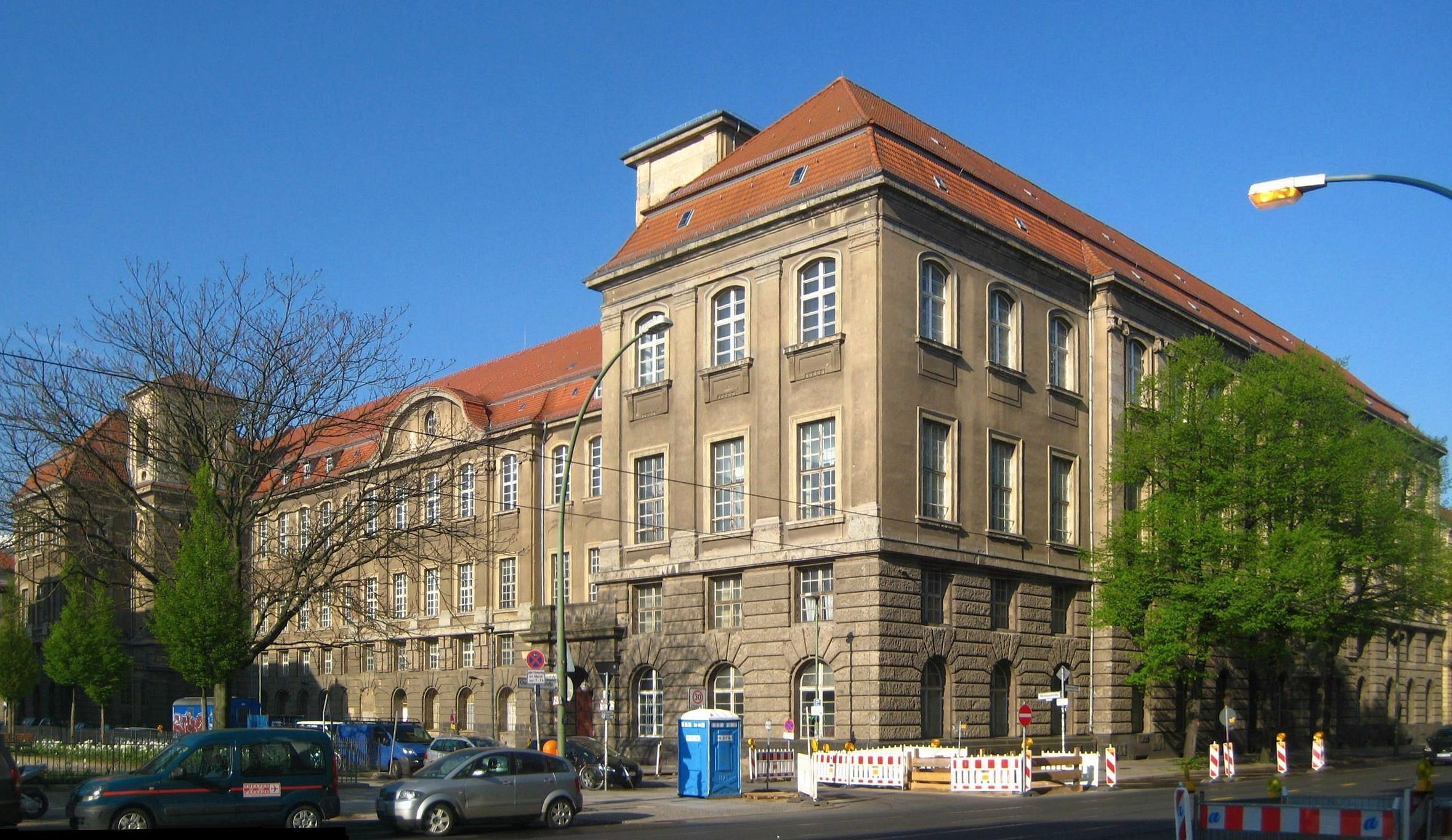 The former Main Telegraph Office at Oranienburger Straße No. 73-76, corner of Monbijourstraße (on the left), in Berlin-Mitte. It was built from 1910 to 1916 to a design by Wilhelm Walter and was at that time the largest postal building in Germany. The large building complex has been designated as a historic landmark.